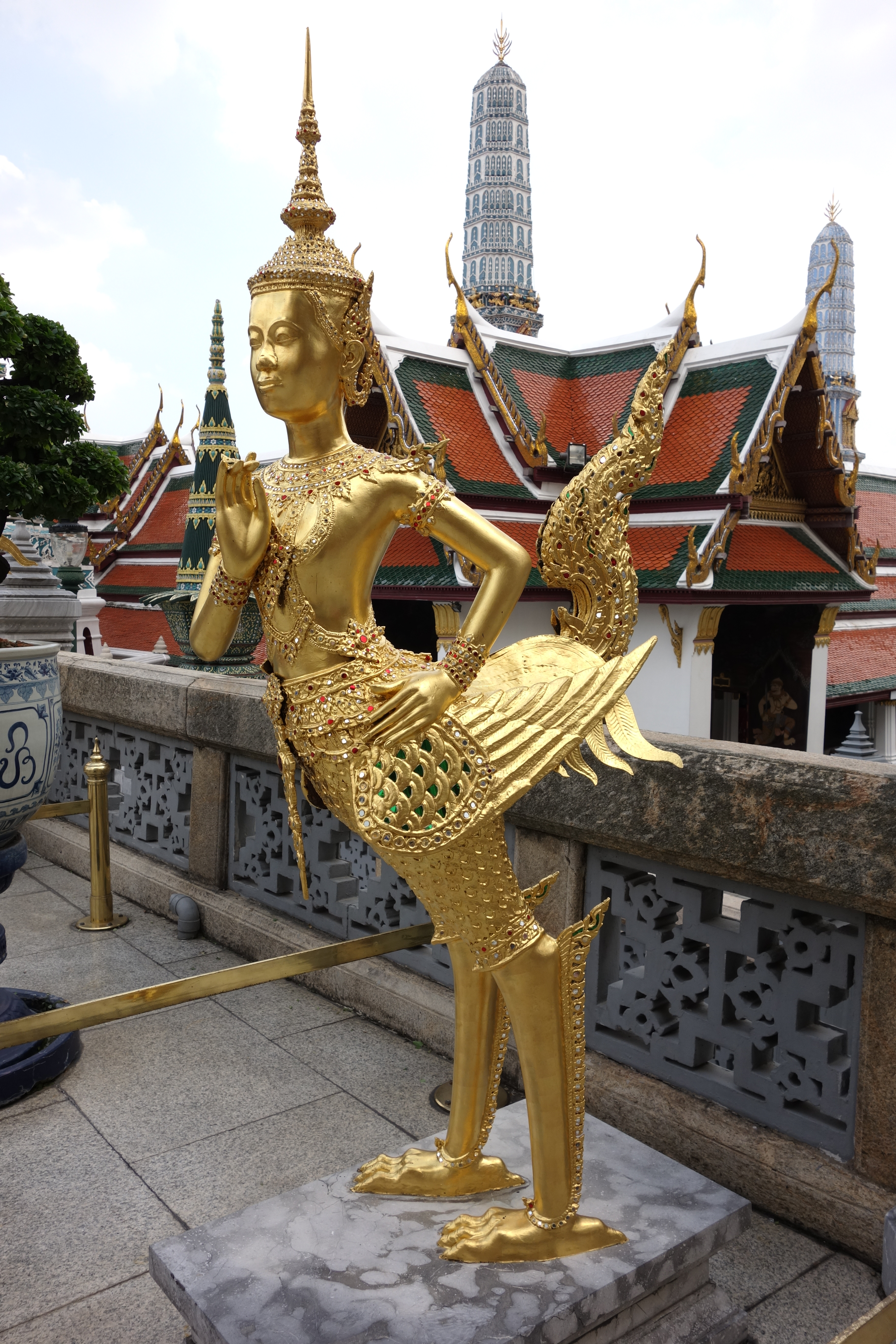 Gilded statue of a mythological creature of Himaphan forest on the Upper Terrace